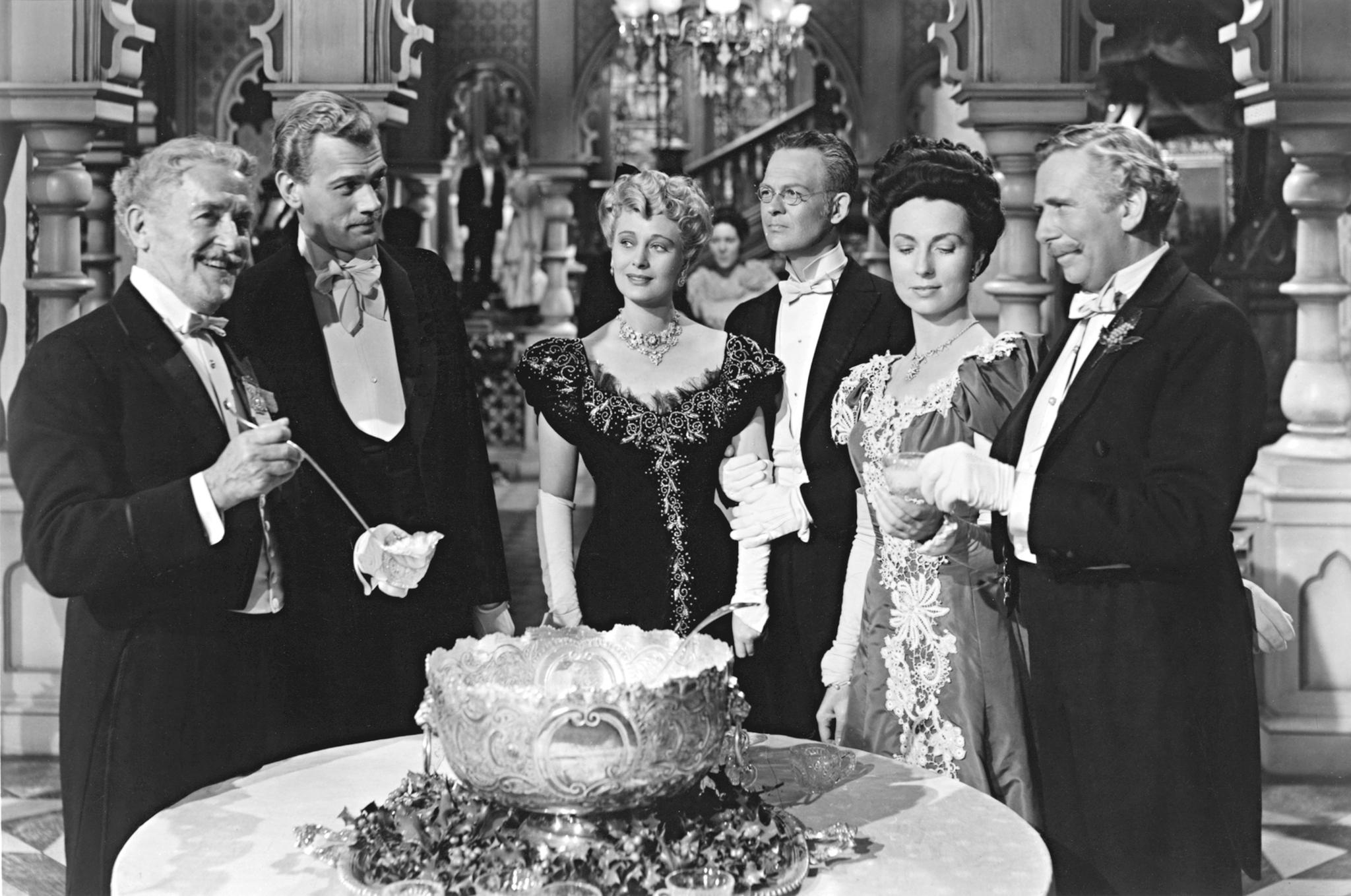 Scene from the 1942 film The Magnificent Ambersons. The image was published as this public domain item